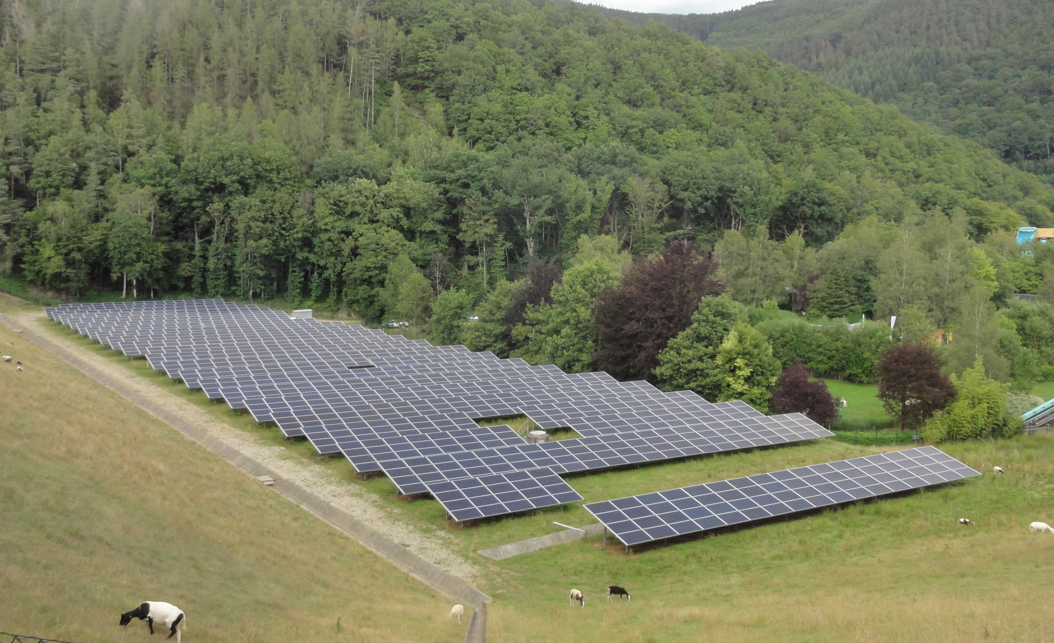 Depicted place: Plopsa Coo